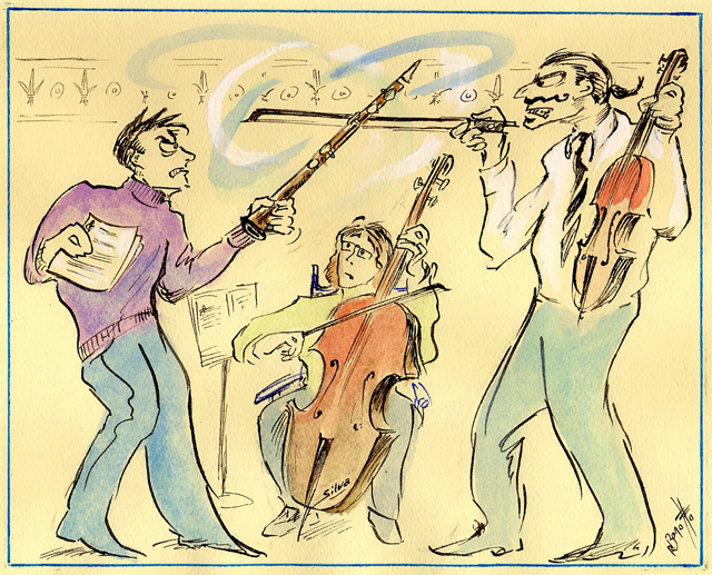 Cartoon by artist Robert Bonotto of fighting musicians